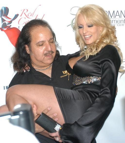 March 10, 2007: Ron Jeremy's Birthday Party A Mob Scene In Hollywood Saturday Night